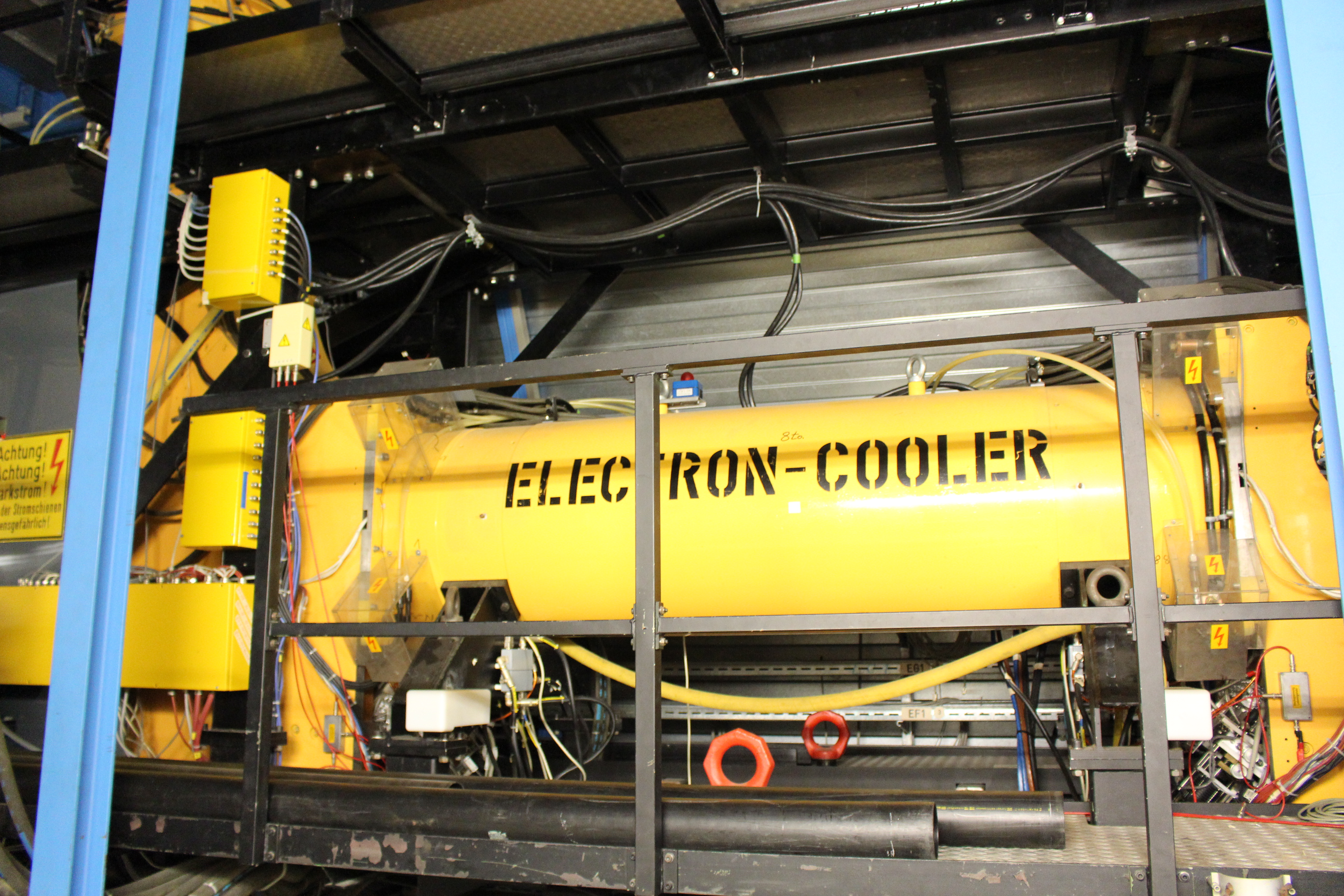 Visit of the GSI Helmholtz Centre for Heavy Ion Research, Darmstadt, Germany.